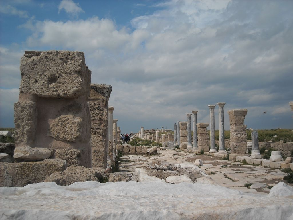 Laodicea - Lycos